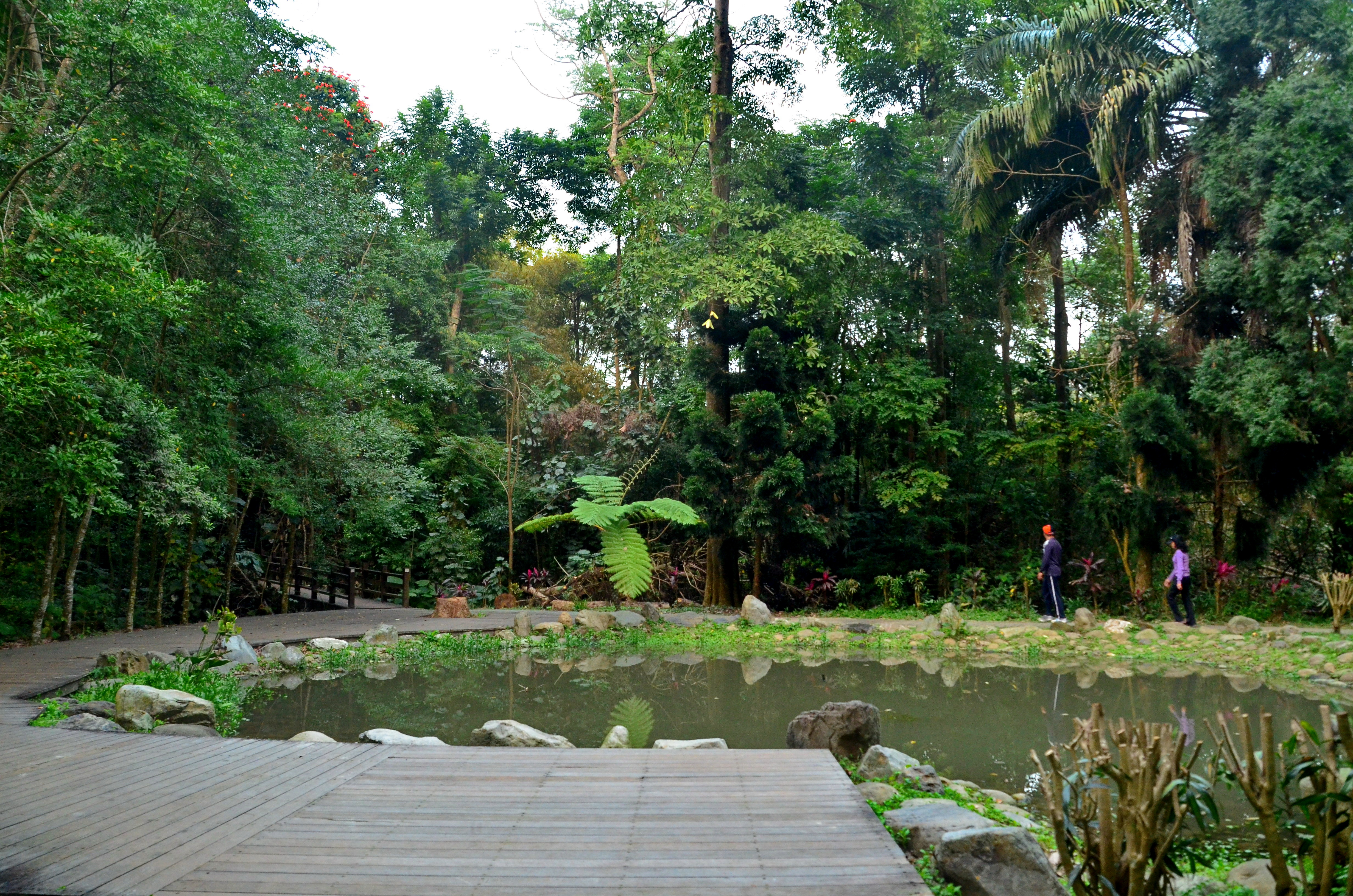 A ecology pond in the Shanzihding Botanical Garden, Chiayi City, Taiwan.